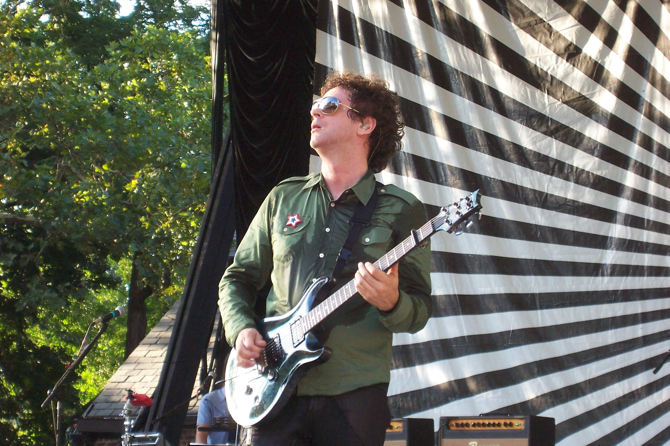 Gustavo Cerati in the Park